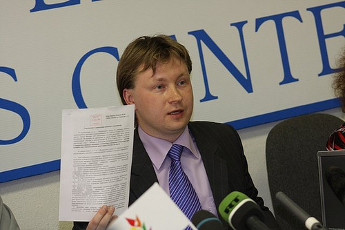 Photo of Nikolai Alekseev, which was taken during the Press Conference announcing the plans for the Slavic Prid, held in Moscow on May 5, 2009.